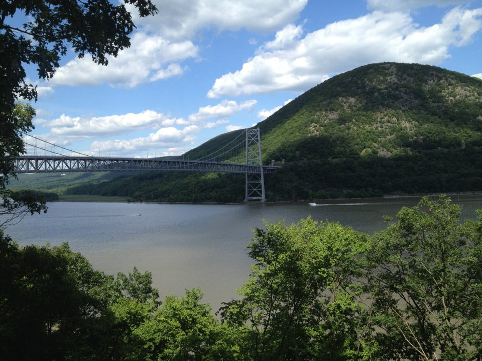 Looking towards Anthony's Nose in Cortlandt Manor from Bear Mountain State Park.